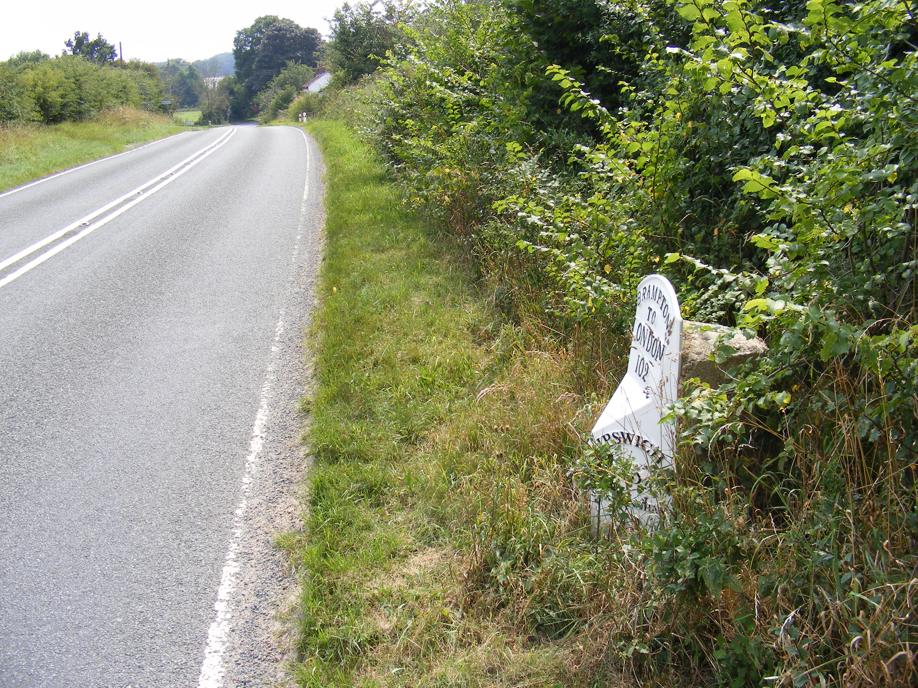 The A145 and the Brampton Milepost